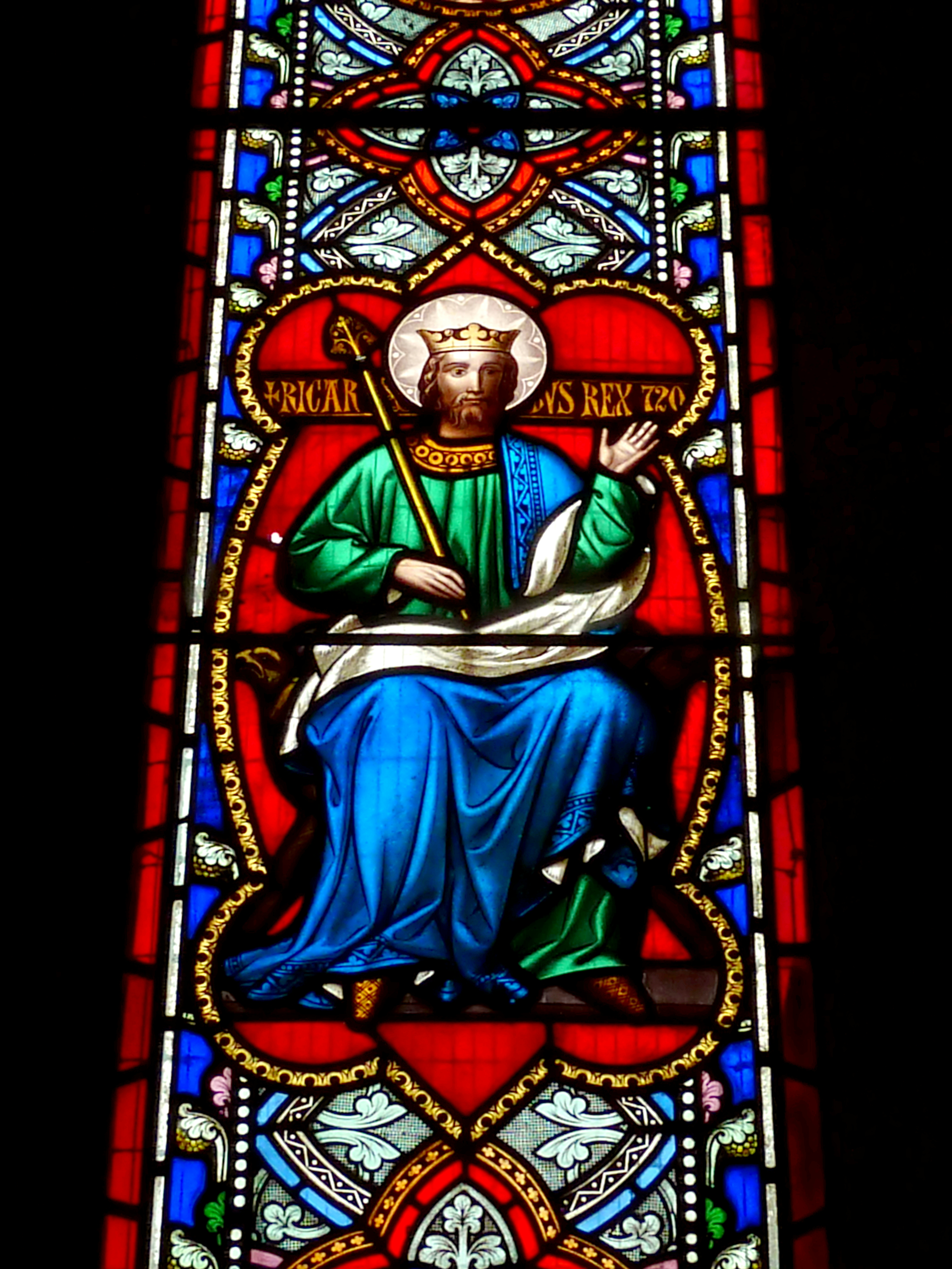 St Ricarius Church, Aberford, West Yorkshire, England. Originally a medieval church, of which only the tower remains. The nave was mostly rebuilt in 1862 to a design by Anthony Salvin, but it includes an 1830 east wall. The stone carving on the building is by Mawer and Ingle, who also carved the pulpit. Showing St Ricarius window of 1862, by Wailes, in a medieval window frame from the previous building. This window shows "St Richard, a king of the West Saxons, AD 720, in whose name it is supposed this church is dediicated." (source = Leeds Intelligencer, Saturday 03 May 1862 p8: "Aberford Church reopening and consecration")